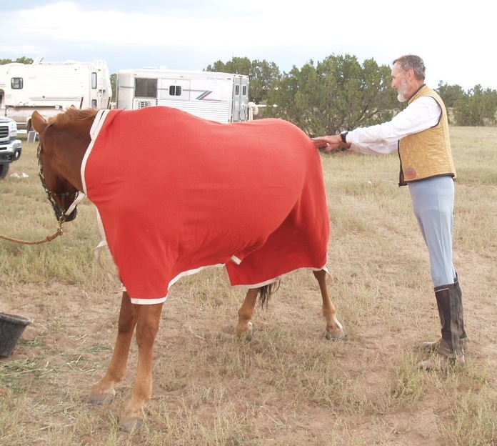 After completing a 1-day, 50 mile ride, this horse enjoys a warm blanket and a good stretch plus deep massage.